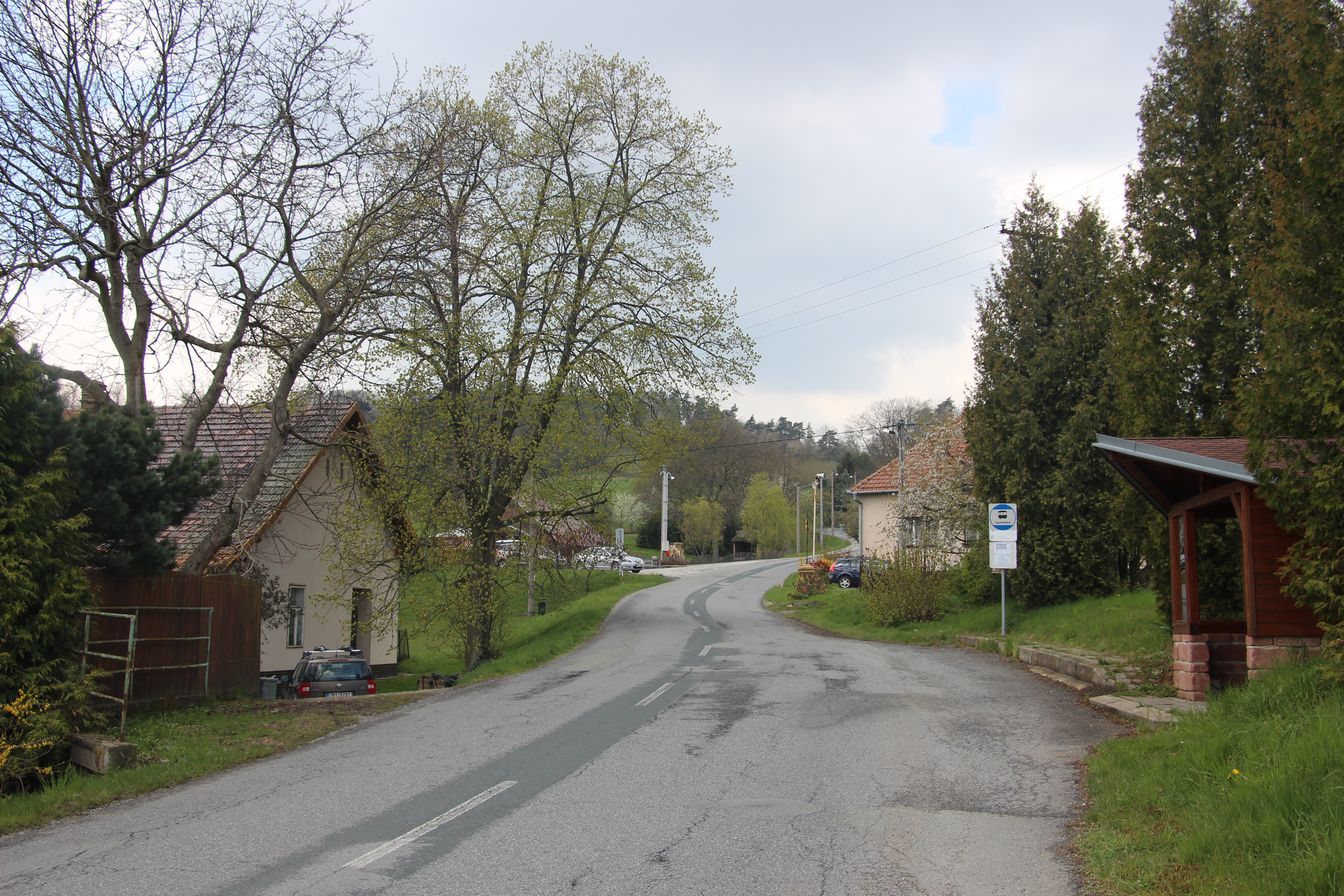 Sulíkov, Vřesice, Blansko District, Czech Republic